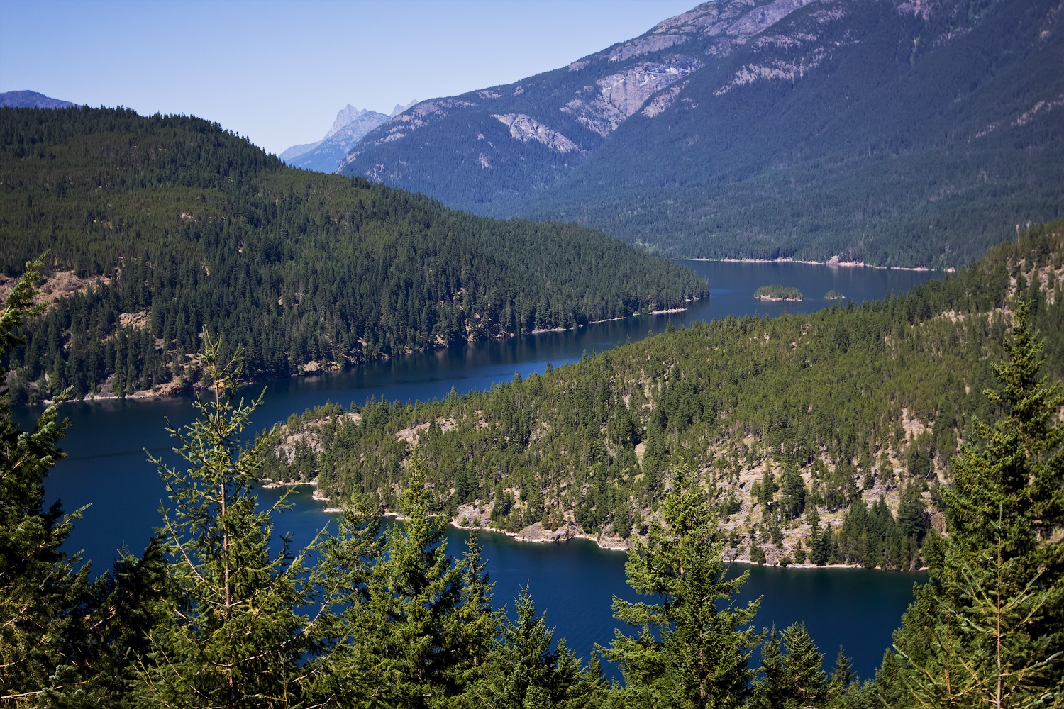 Ross Lake is a large reservoir in the North Cascade mountains of northern Washington state, USA. View from Ross Lake Overlook at Washington State Route 20.